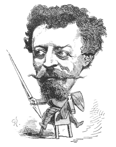 French actor François-Louis Lesueur, a.k.a. Lesueur (1819-1876), by Georges Lafosse (1844-1880)